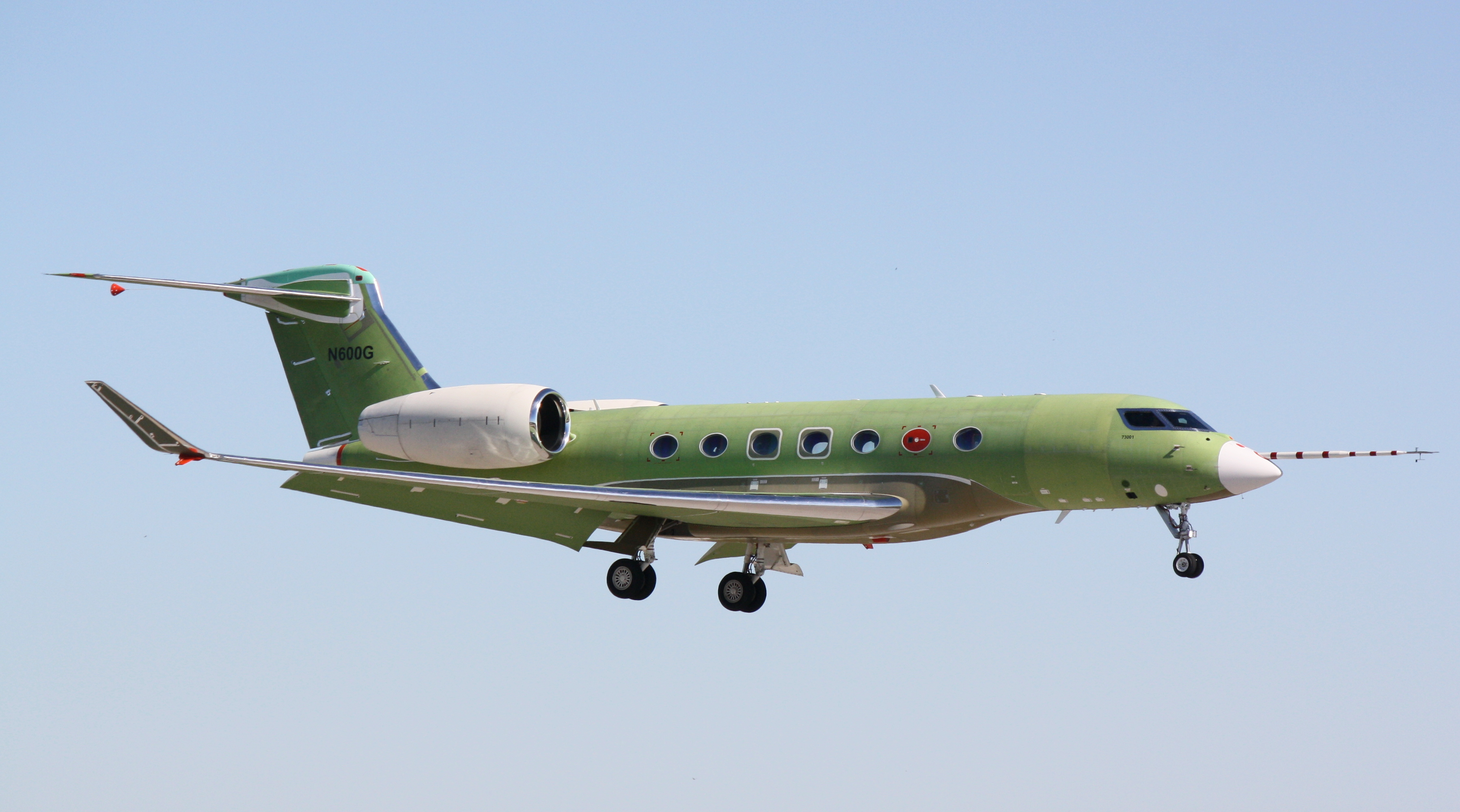 G600 test aircraft (N600G) performs testing at Sarasota-Bradenton International Airport in February 2017.